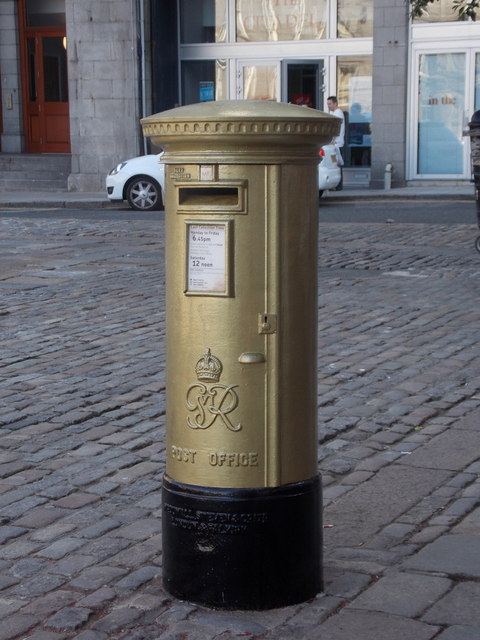 Aberdeen: postbox № AB11 127, Castlegate